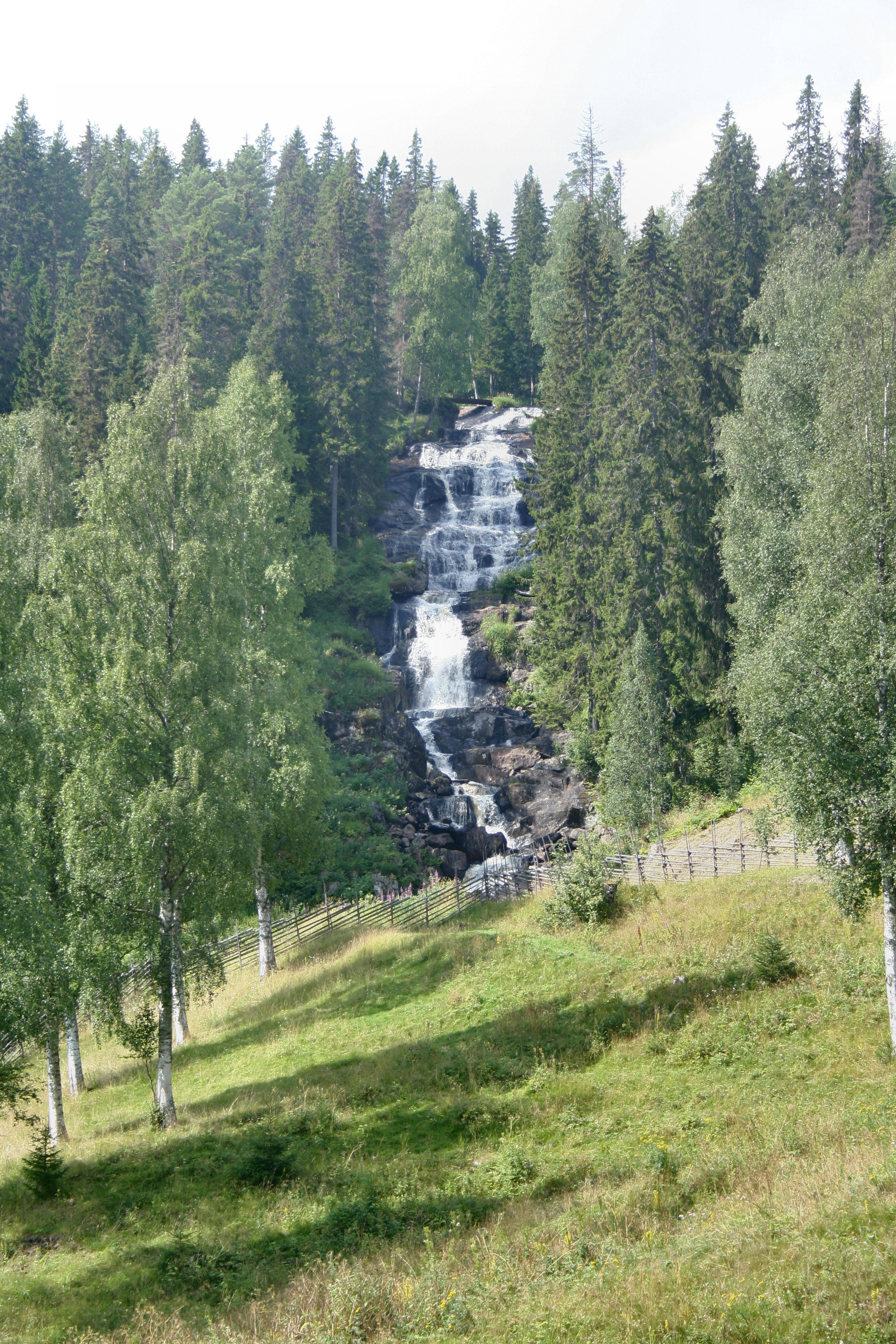 Picture of the Västanå waterfall in Västernorrlands län near the village Viksjö.